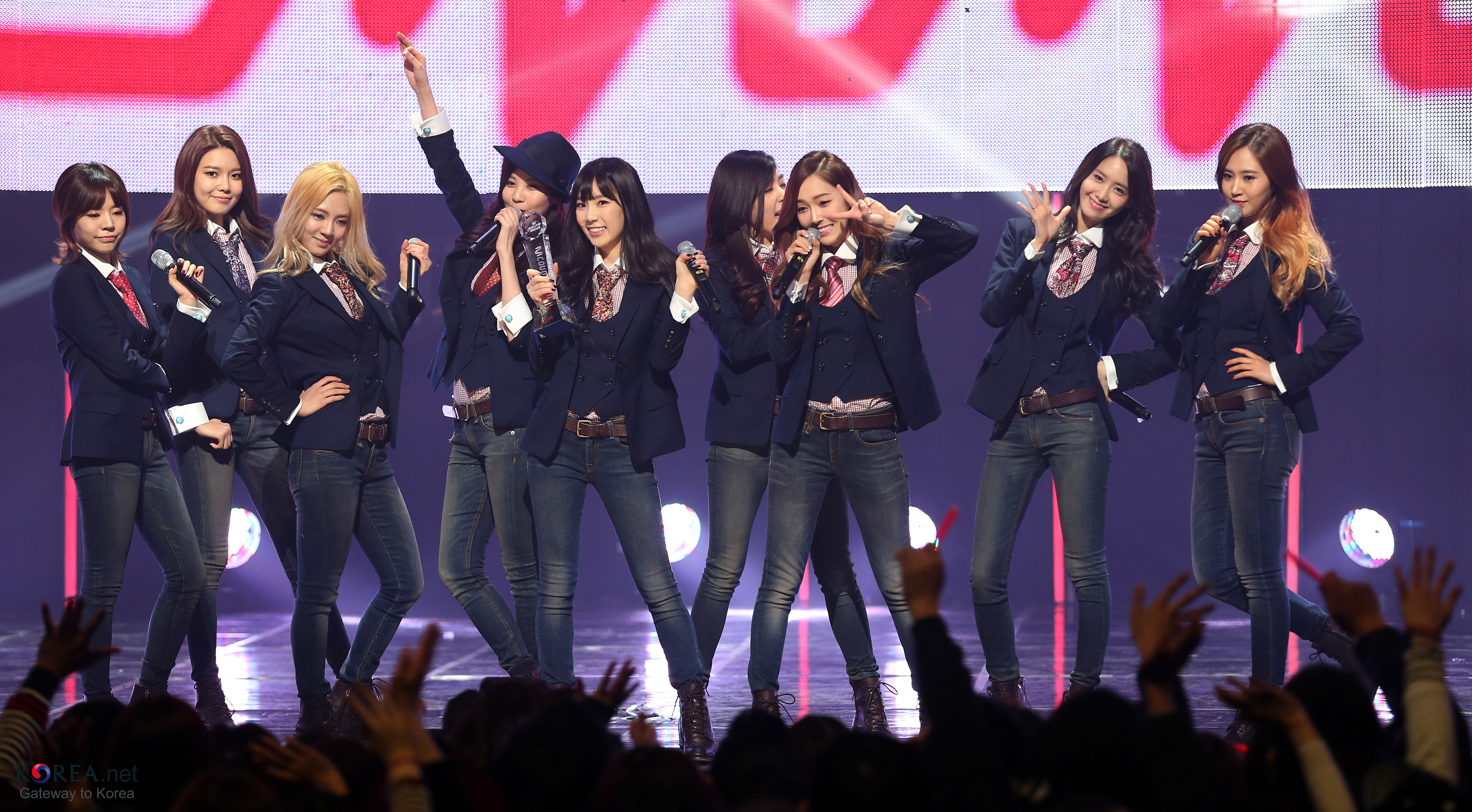 Mcountdown Girl’s Generation Comeback Performance CJ E&M Center, Sangam-dong, Mapo-gu, Seoul 2014.03.06. Related Article - -English- Girls’ Generation hits the top with comeback album -Español - Girls’ Generation reaparece con nuevo disco, y se coloca en primer lugar -Deutsche- Girls’ Generation stürmen die Charts mit Comeback-Album -русский- Girls’ Generation попадают на вершину с «альбомом-возвращением» -français- Retour gagnant pour les filles de Girls’ Generation -中文- 少女时代首场回归舞台获一位 -日本語- やはり少女時代、久しぶりのランキング番組出演で早くも1位 - tiếng Việt- SNSD danh bất hư truyền, giành vị trí quán quân ngay lần đầu trở lại showbiz -Arabic- فريق جيرلز جينيريشن يتألق بألبوم العودة Ministry of Culture, Sports and Tourism Korean Culture and Information Service ( Jeon Han 엠카운트다운 생방송 소녀시대 복귀 무대 2014-03-06 CJ E&M 센터 관련 기사 코리아넷 “역시 소녀시대, 컴백 첫 무대에서 정상” 문화체육관광부 해외문화홍보원 코리아넷 전한